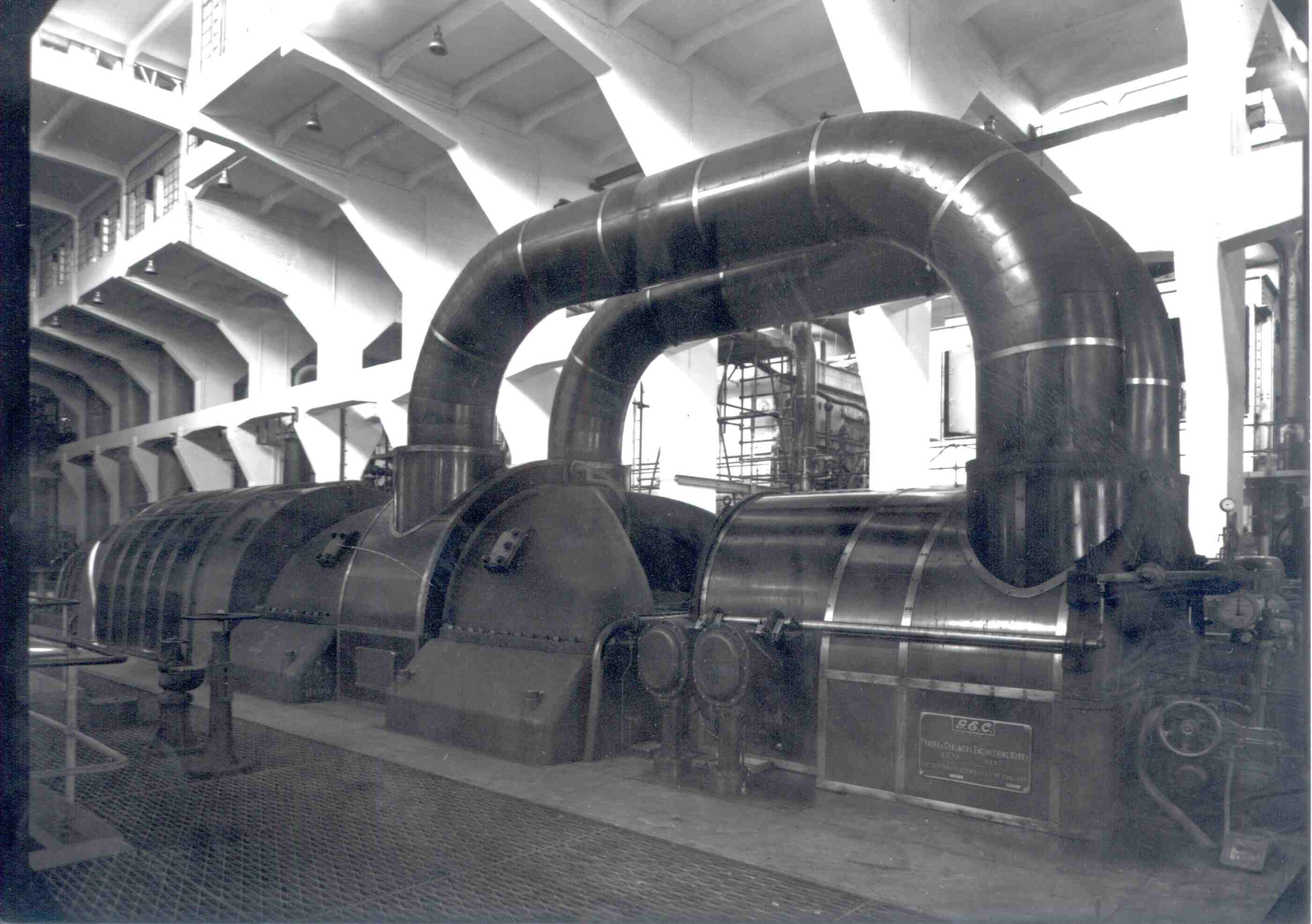 turbine & generator